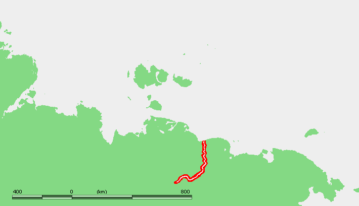 location map